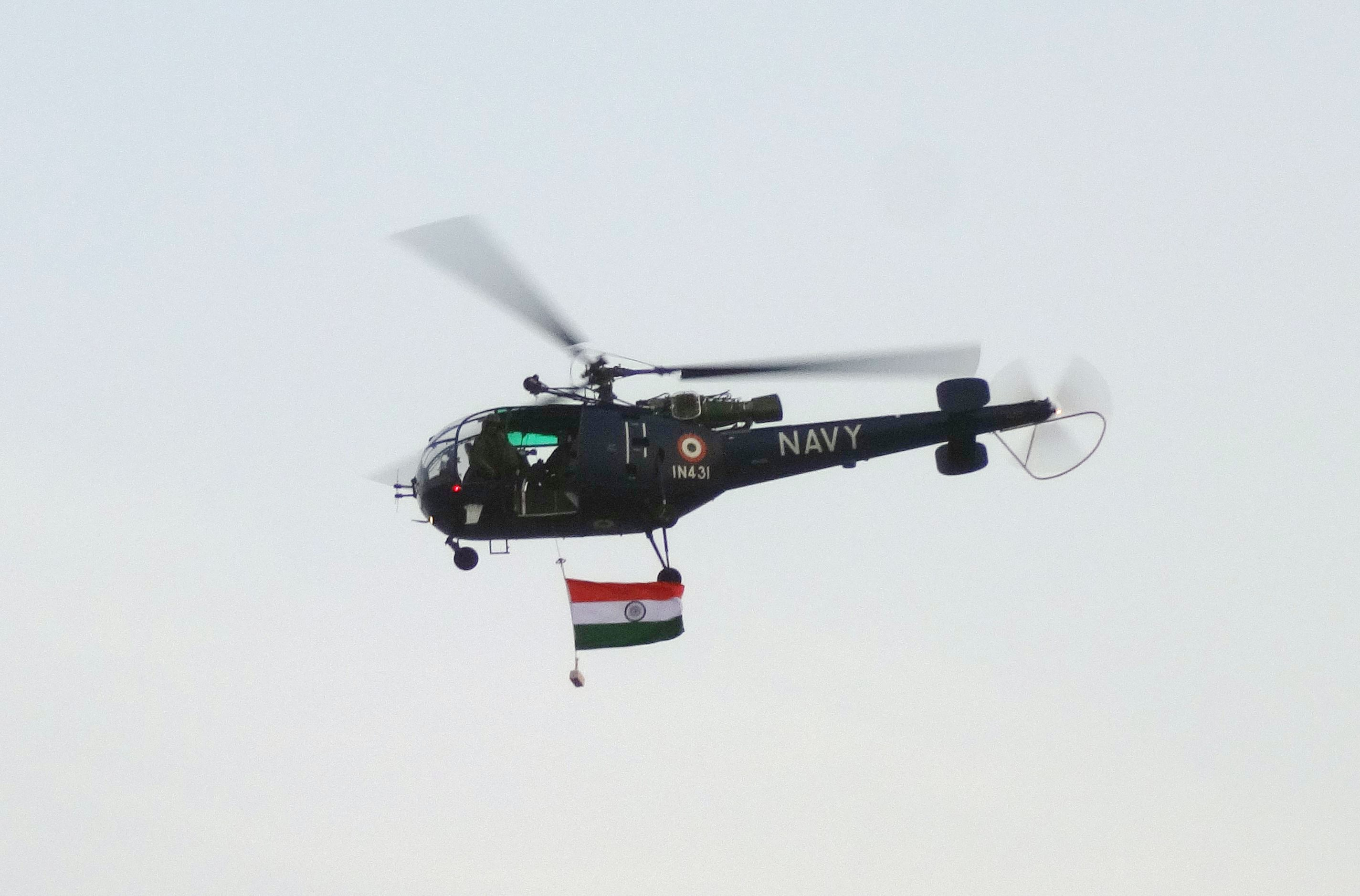 IFR 2016